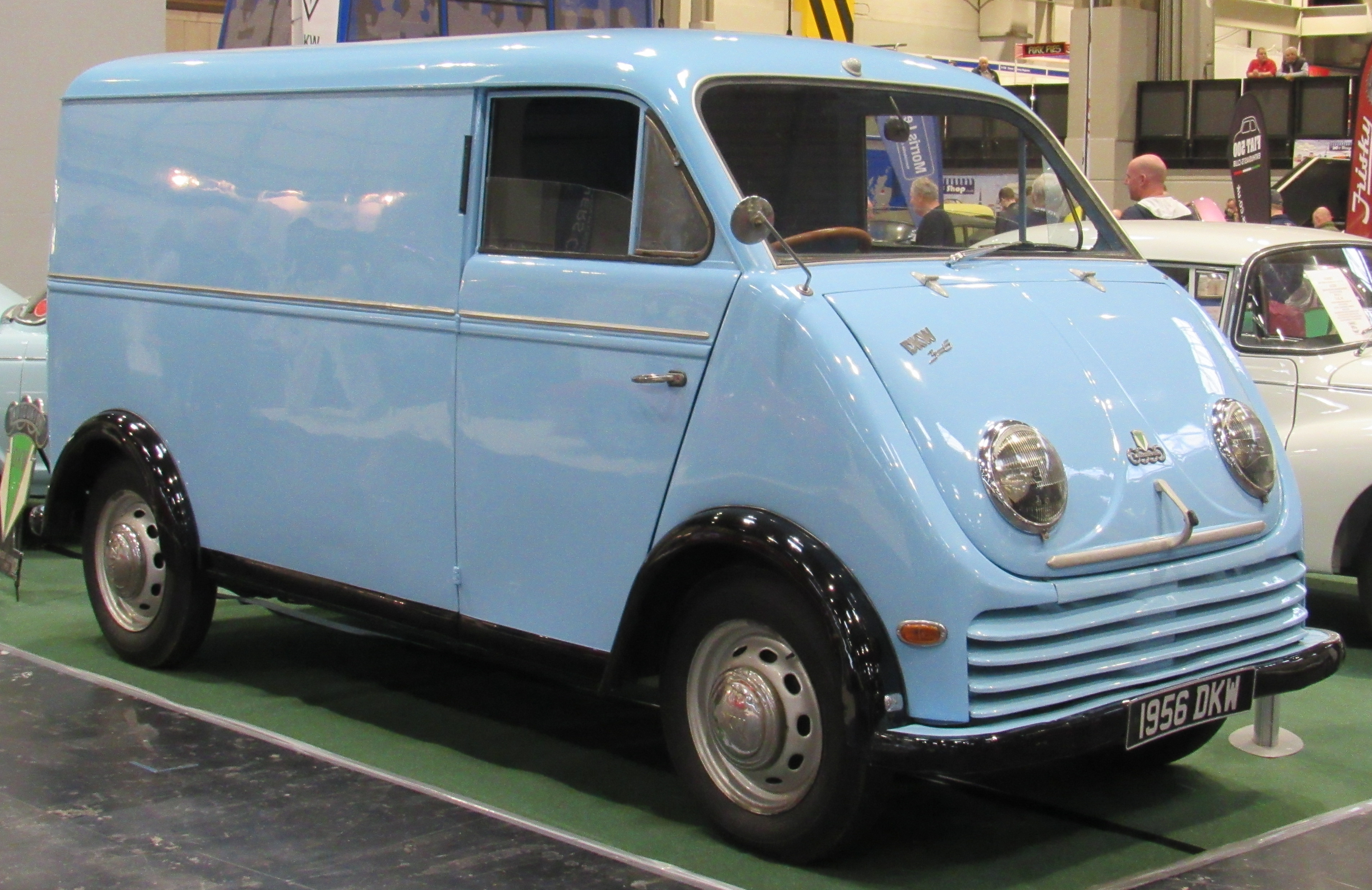 1956 DKW F89L (Schnellaster) Front Taken At the NEC Classic Motor Show 2017